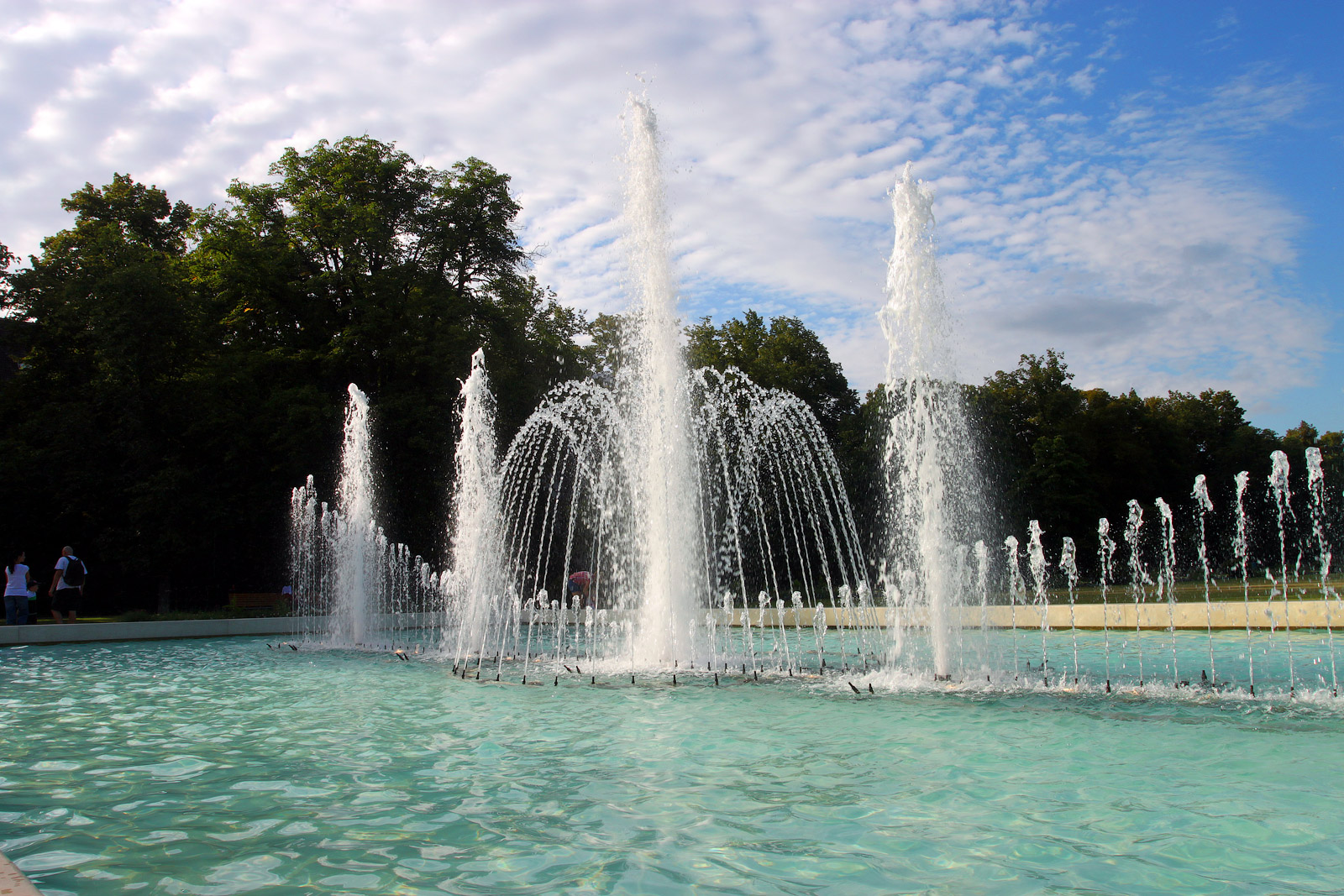 Fontain in the Podebrady park